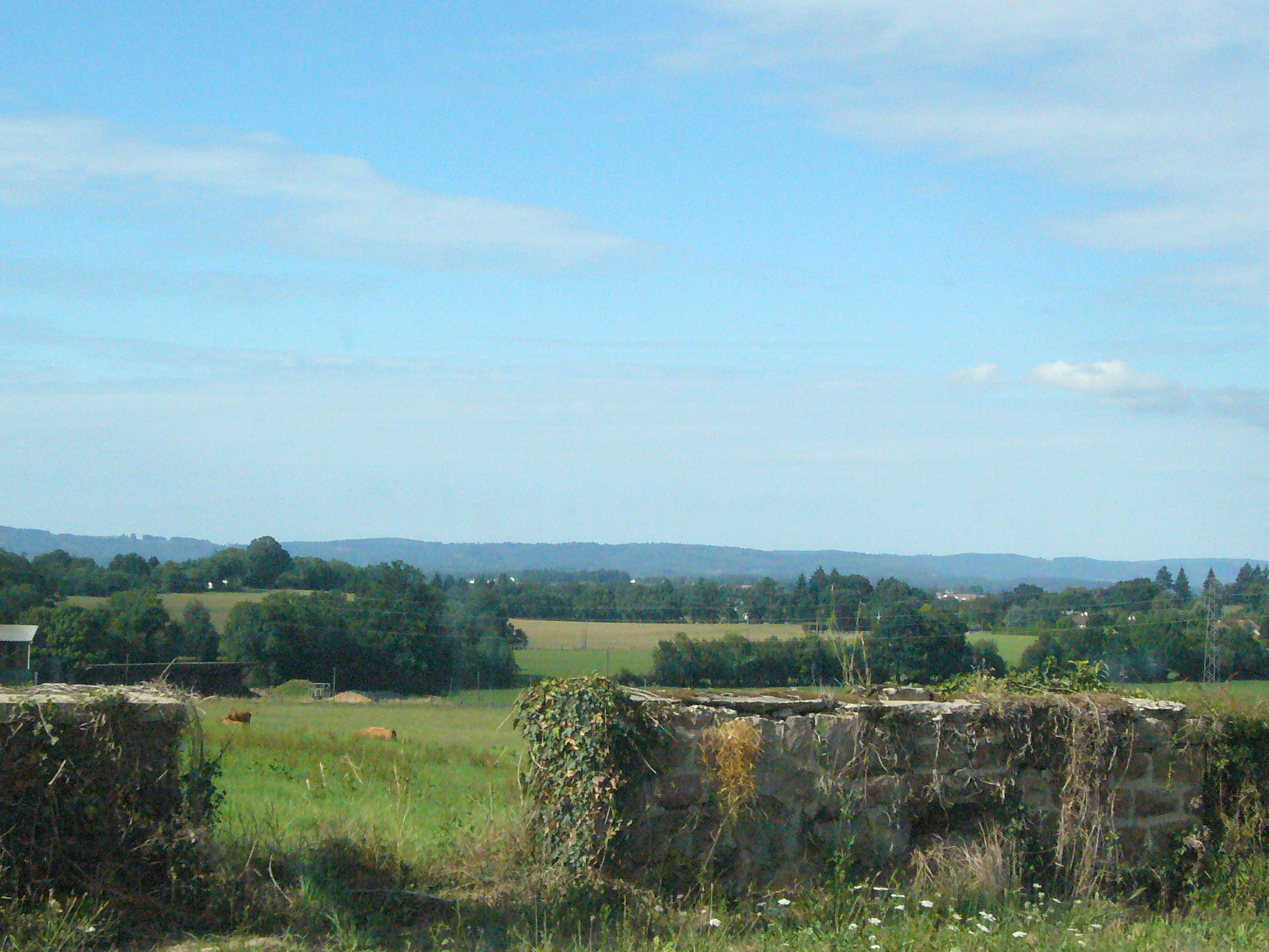 The Monts d'Ambazac from Panazol (Haute-Vienne, France)